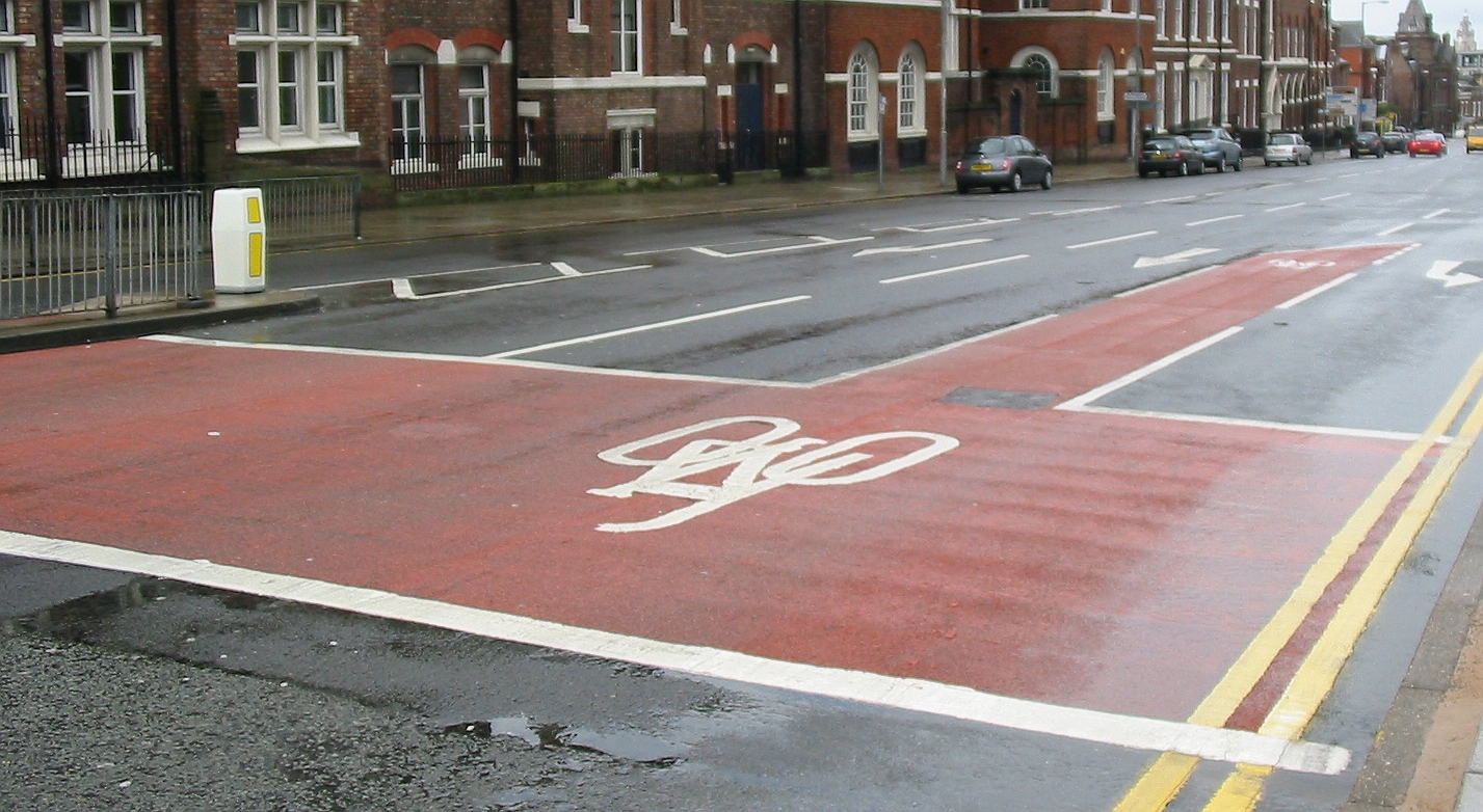 Liverpool